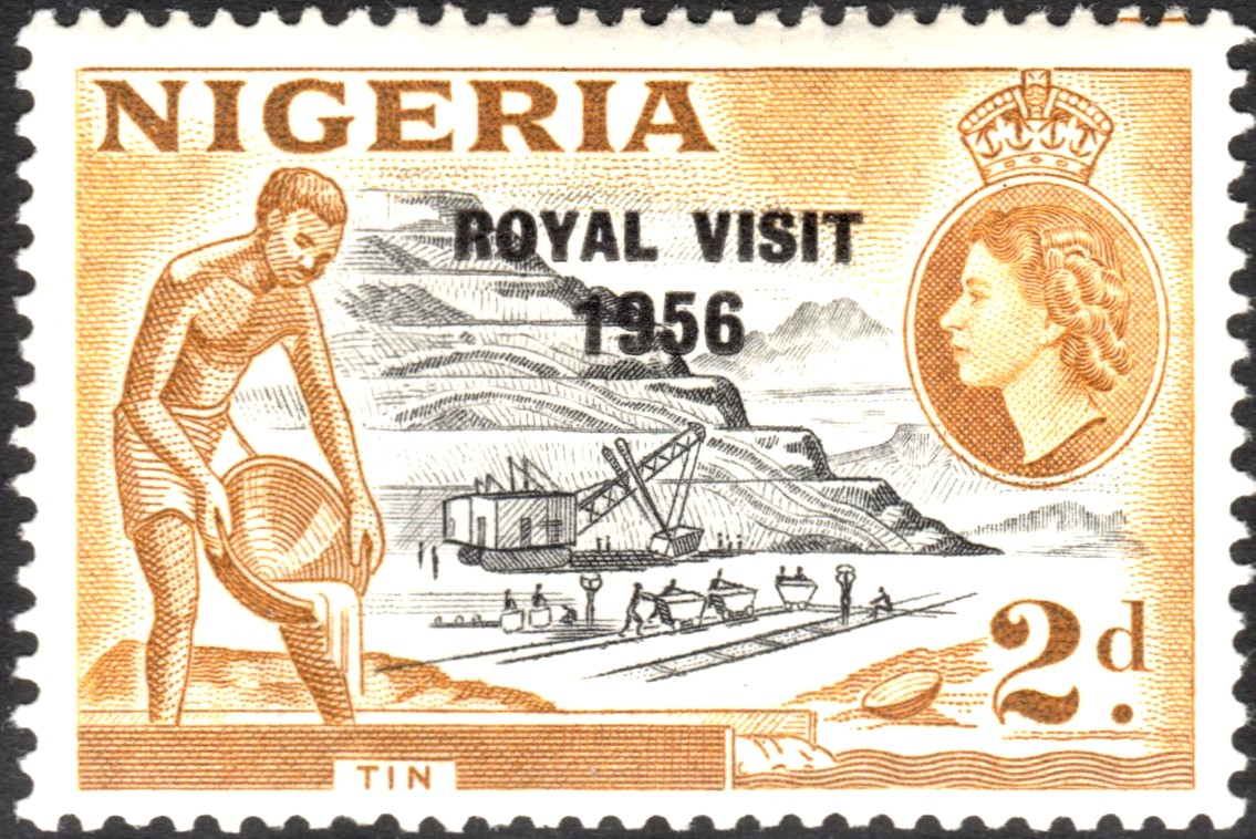 Nigeria royal visit stamp 1956.